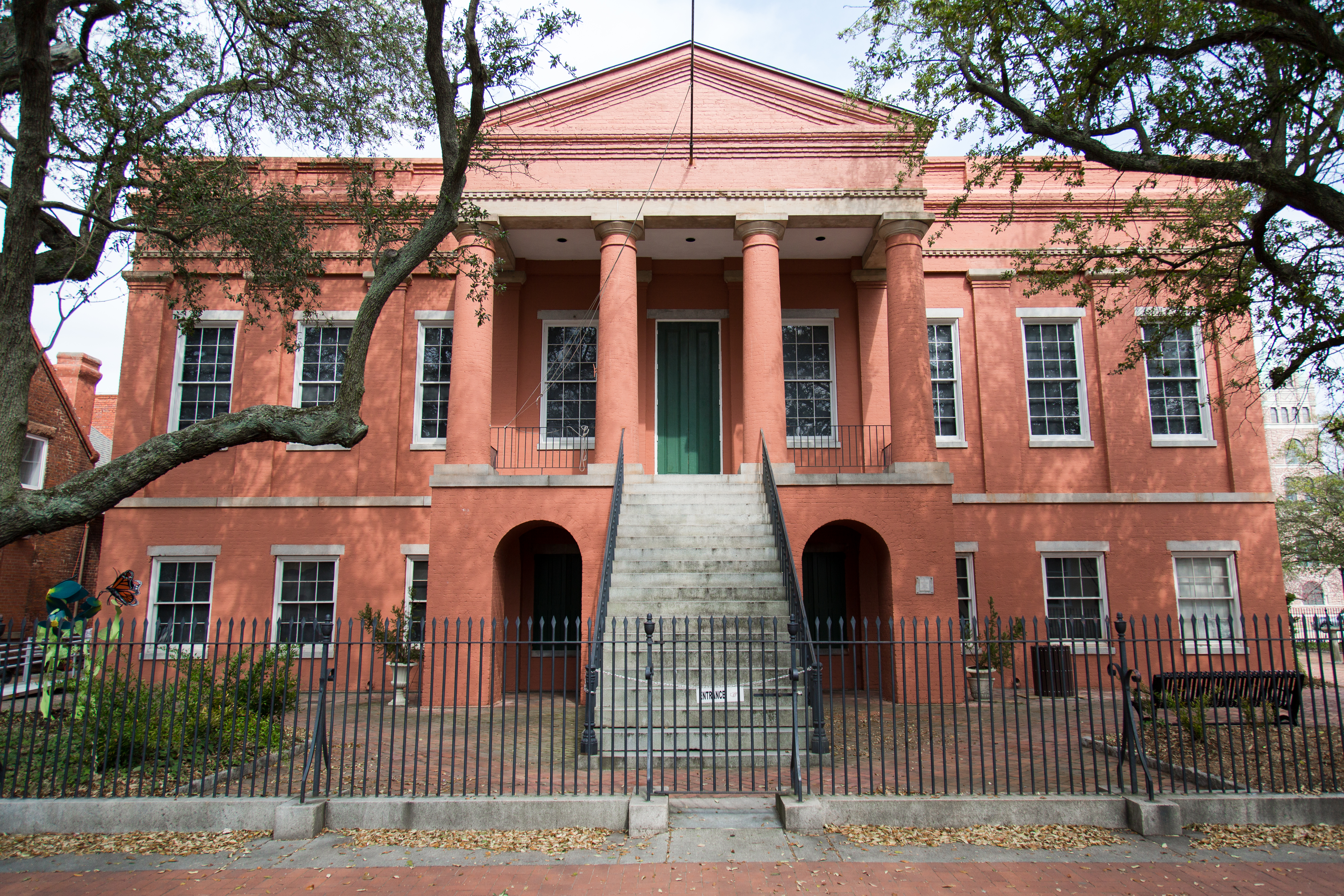 Front of the Portsmouth Courthouse facing High Street, taken by Max Greenhood for the Olde Towne Portsmouth Visitor's Guide in 2016